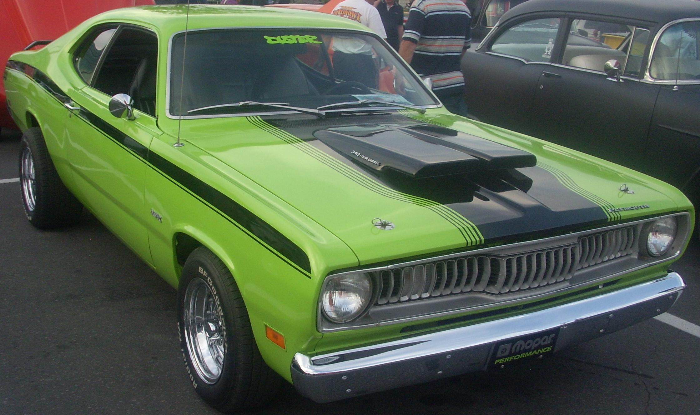 Plymouth Duster photographed in Montreal, Quebec, Canada at Gibeau Orange Julep.